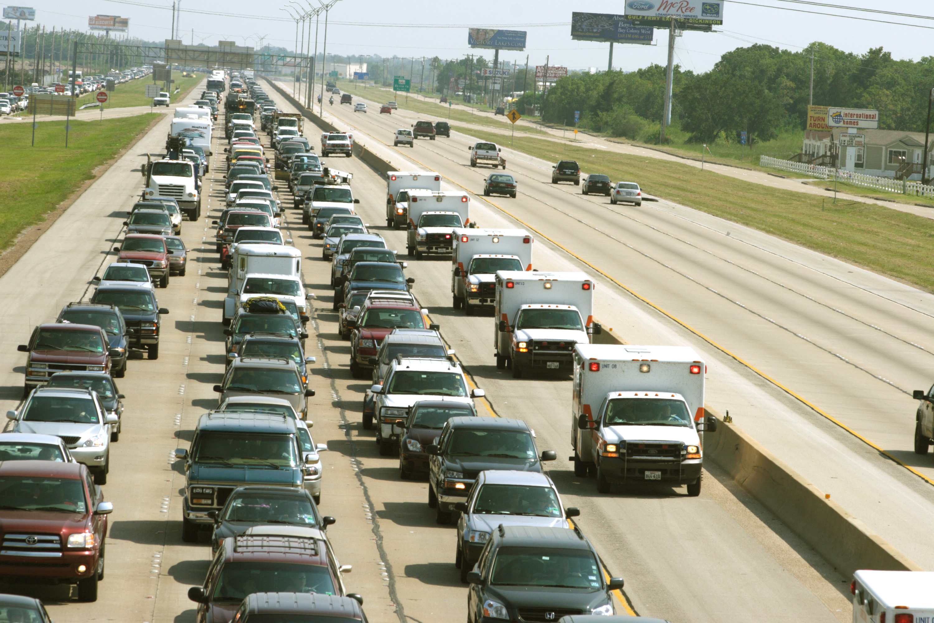 Houston, TX, September 21, 2005 -- Traffic on I 45 was mostly out of town, to the north, as Galveston citizens evacuated the coastal flood plains. The recent landfall of Hurricane Katrina near New Orleans had people hurrying to prepare for Hurricane Rita. This picture was taken from the Calder Road overpass in League City, looking towards the southeast. The northbound traffic is from Galveston heading towards Houston and beyond.